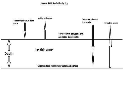 Diagram of how the dielectric constant was determined for scalloped terrain on Mars